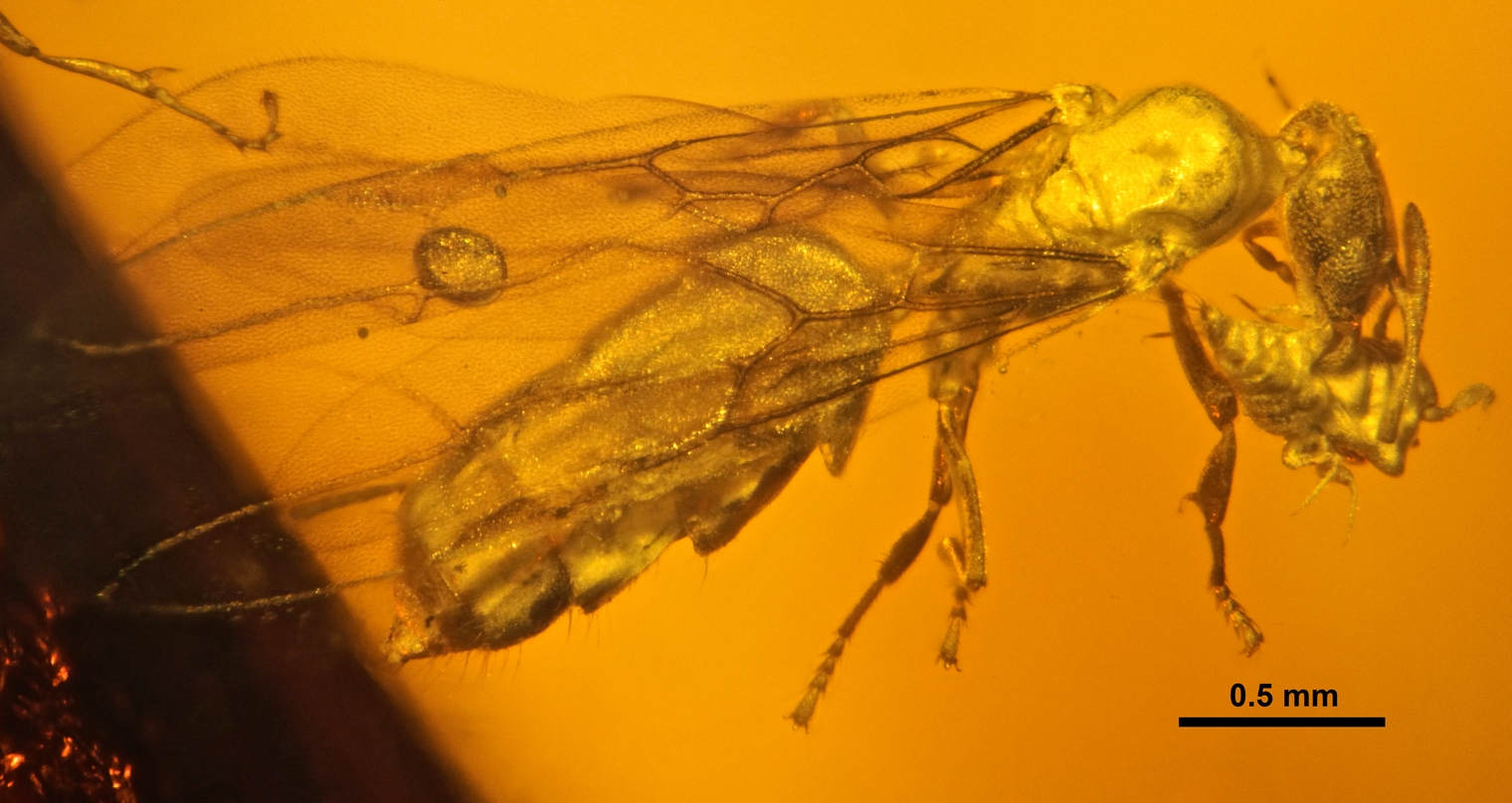 Profile view of an Acropyga glaesaria paratype. Specimen SMFBE457B2